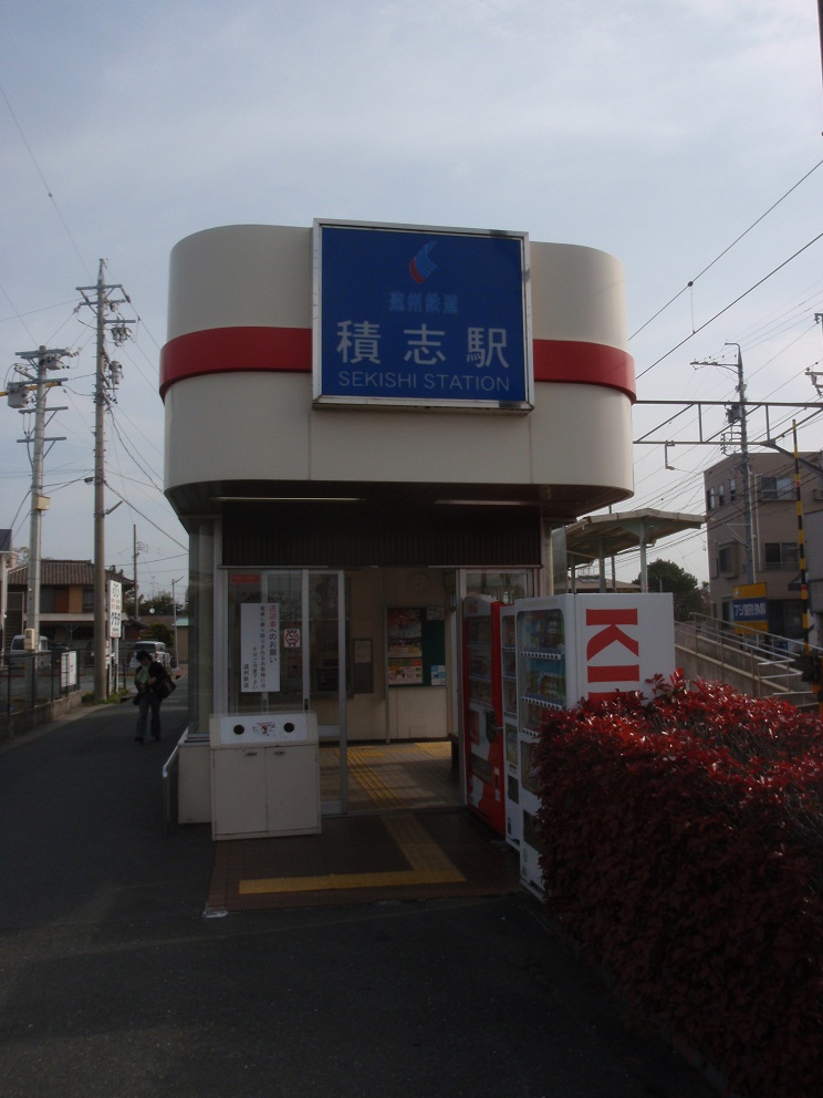 The booking office of Sekishi station, Enshu Railway in Hamamatsu, Japan.